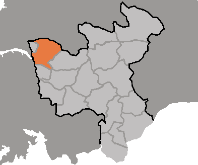 Map of Hwangju, Hwanghae-pukto, DPRK, 2006